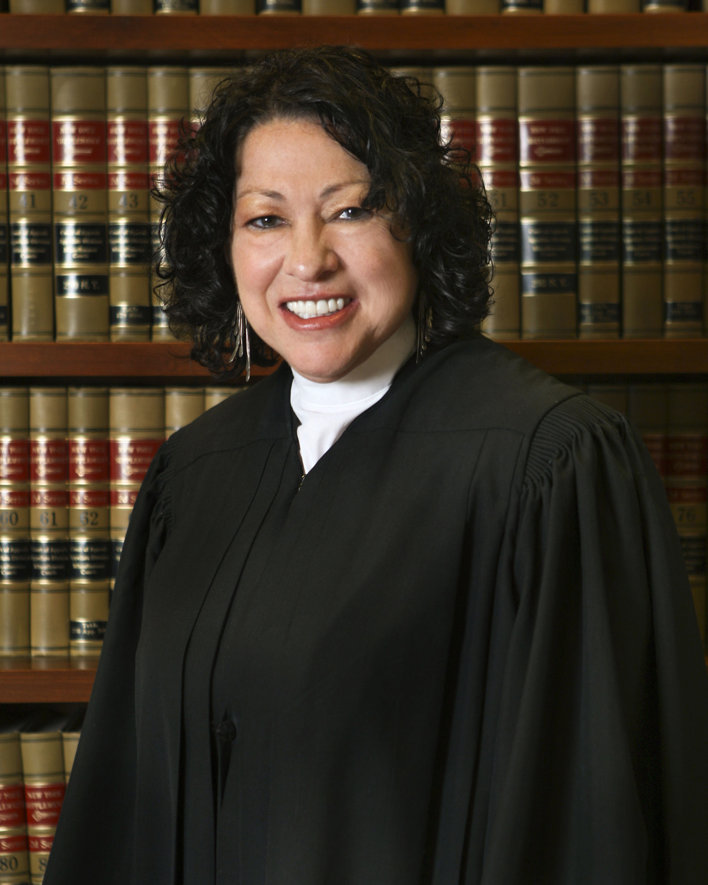 Judge Sonia Sotomayor in 2009. Part of a slide show, "Sotomayor Bio: Picutures from Throughout Judge Sotomayor's Life" According to the May 2009 White House copyright policy, "Except where otherwise noted, third-party content on this site is licensed under a Creative Commons Attribution 3.0 License." No alternative licensing information is given for these photos, so they are assumed to be available under the Creative Commons Attribution 3.0 License.